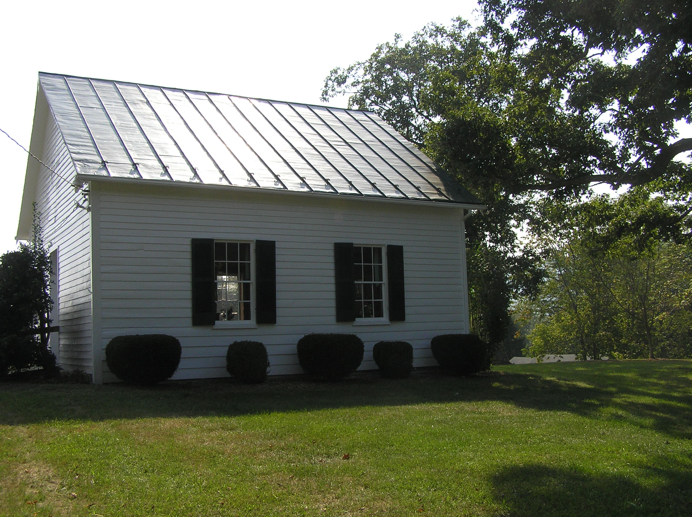 Capon Chapel (c. 1756) and Cemetery on Christian Church Road (County Route 13) near Capon Bridge, West Virginia, United States.